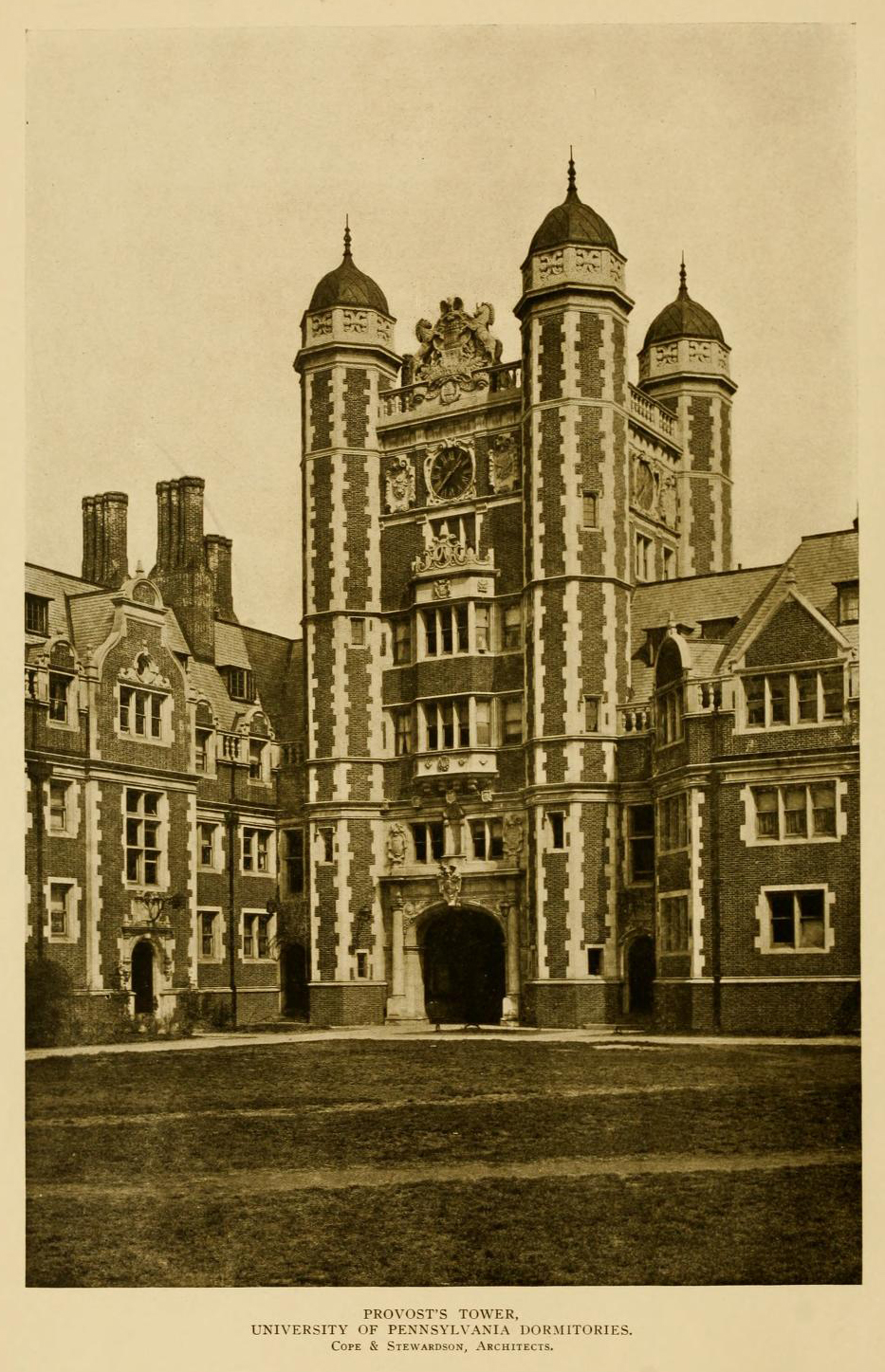 Provost's Tower (36th Street Entrance), Quadrangle Dormitories, University of Pennsylvania, Philadelphia, Pennsylvania.